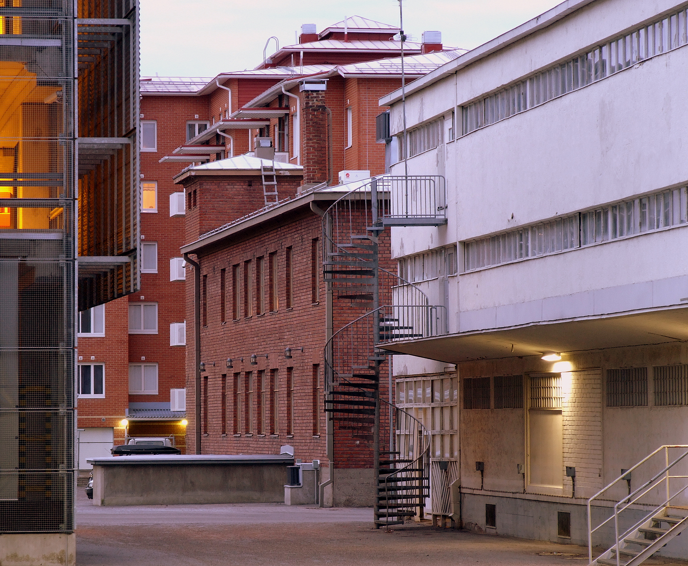 The two story brick building in the middle of the picture is an old customs house in Vanhatulli neighbourhood in Oulu.